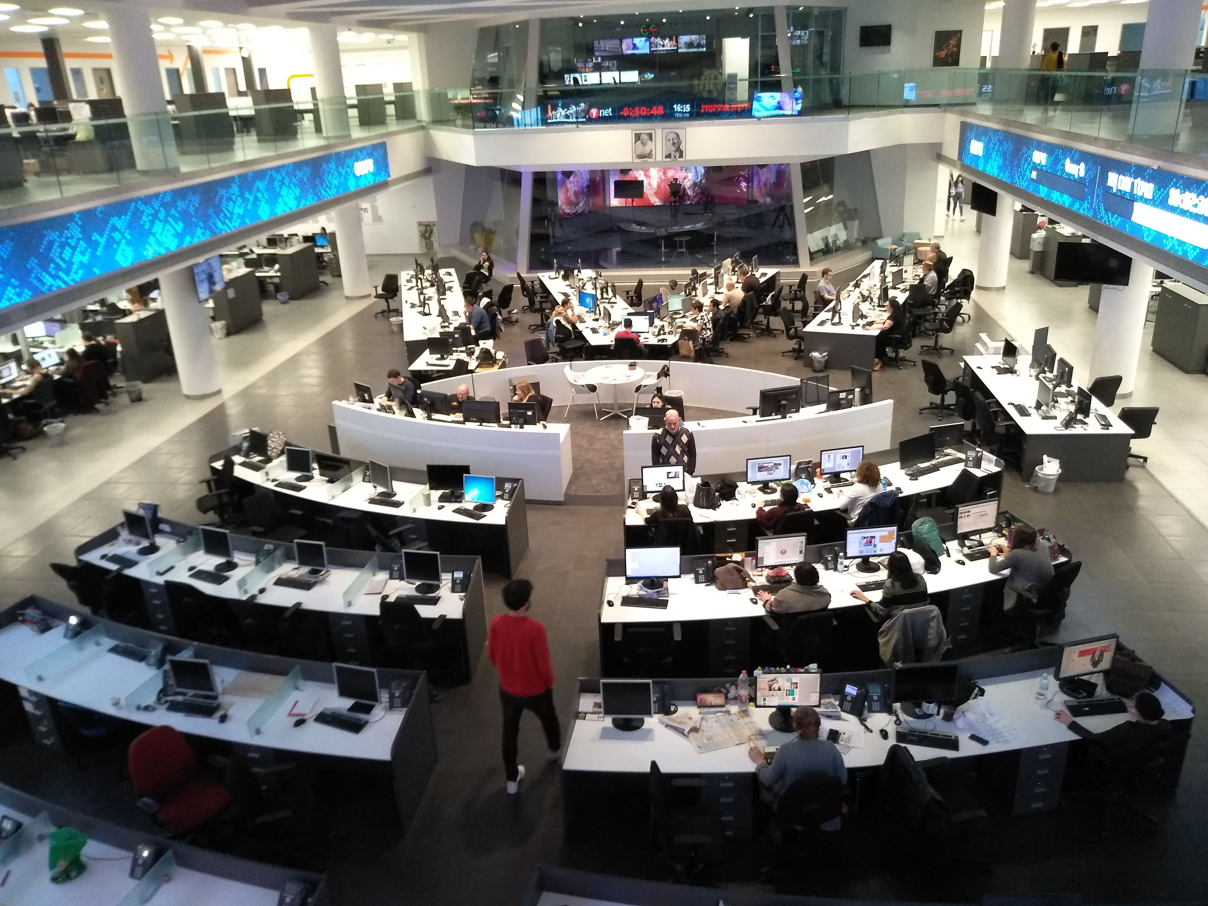 Yedioth Ahronoth Editorial in Rishon Lezion.